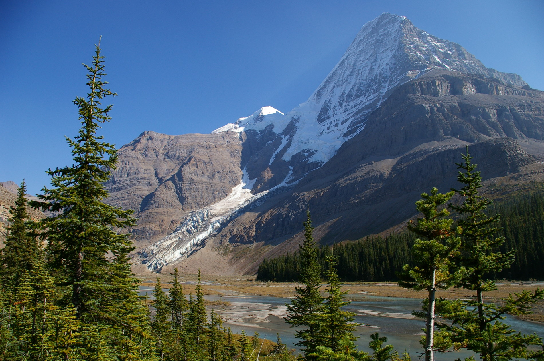 Mount Robson and Mist Glacier as seen from a location just upstream of Emperor Falls Campground.